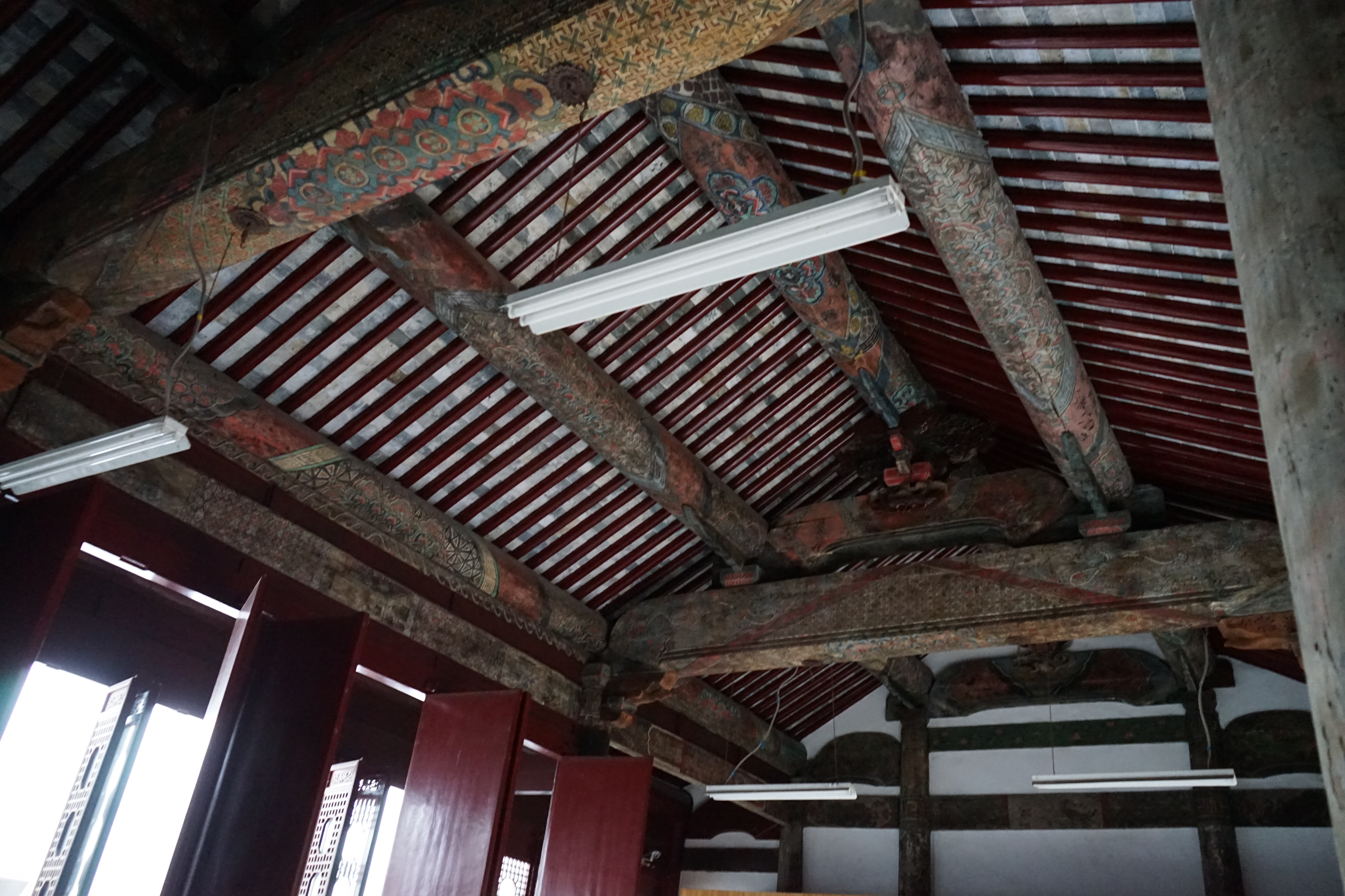 Residence of the King Daiwang of the Taiping Heavenly Kingdom interior